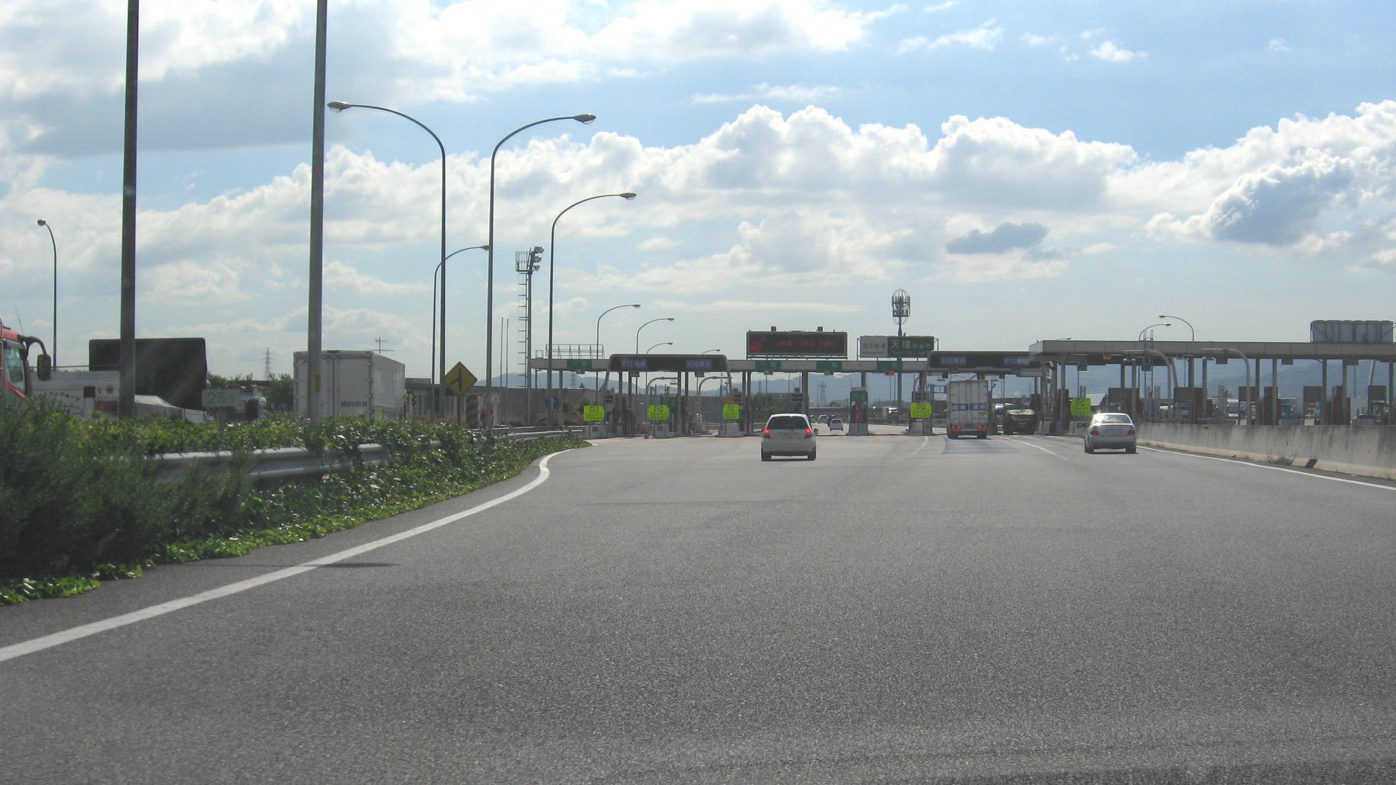 Tenri Tollgate